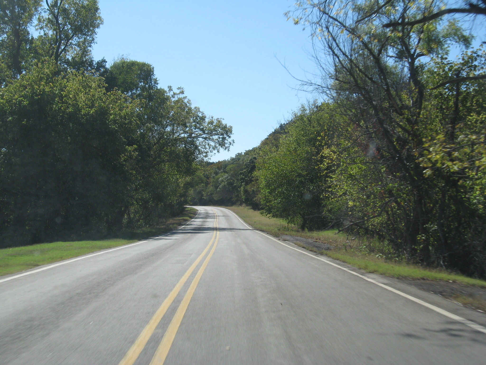 State Highway 152 in the Red Rock Canyon area in Caddo County, Oklahoma.